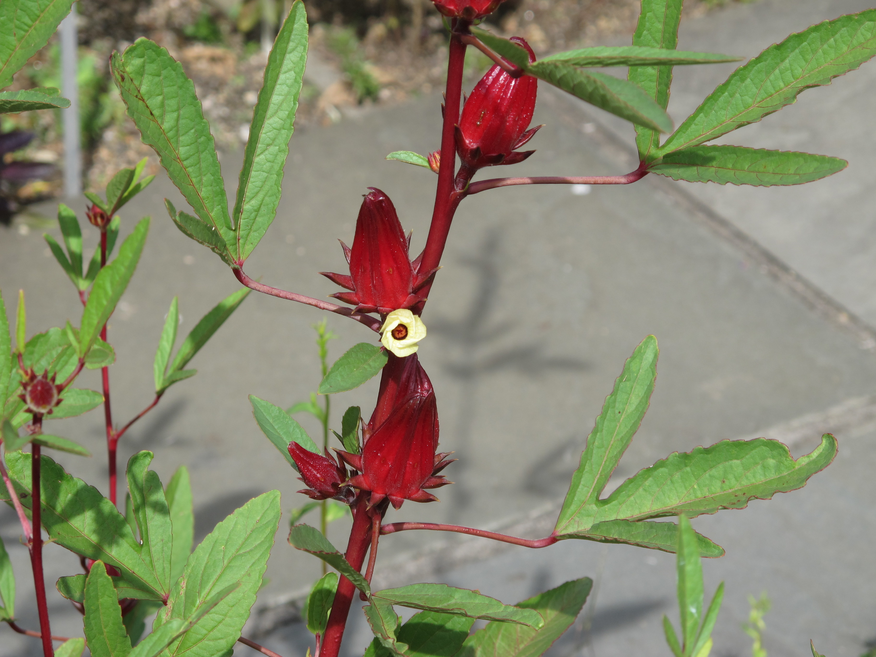 A stem of Hibiscus sabdariffa showing flower, calyx and leaves. Wave Hill, the Bronx, New York City, September 2014